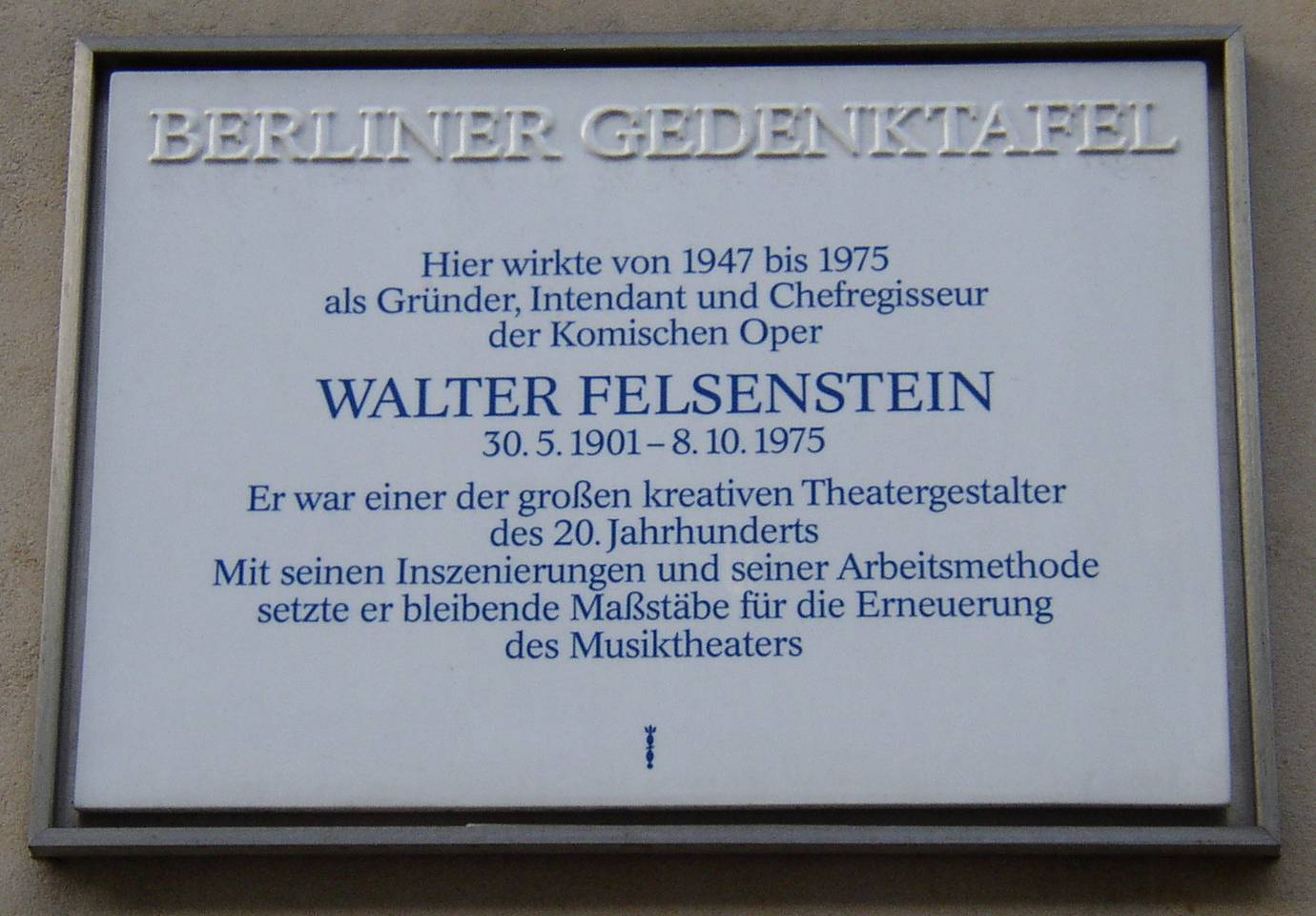 Berlin memorial plaque for Walter Felsenstein in Berlin-Mitte, Germany